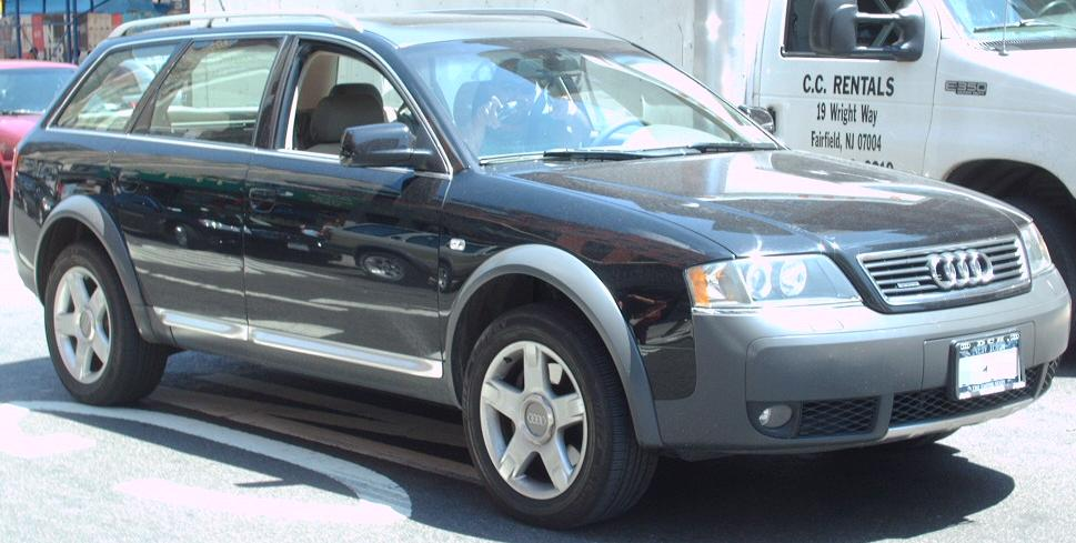 2001-2005 Audi Allroad Quattro photographed in New York City, New York, USA.